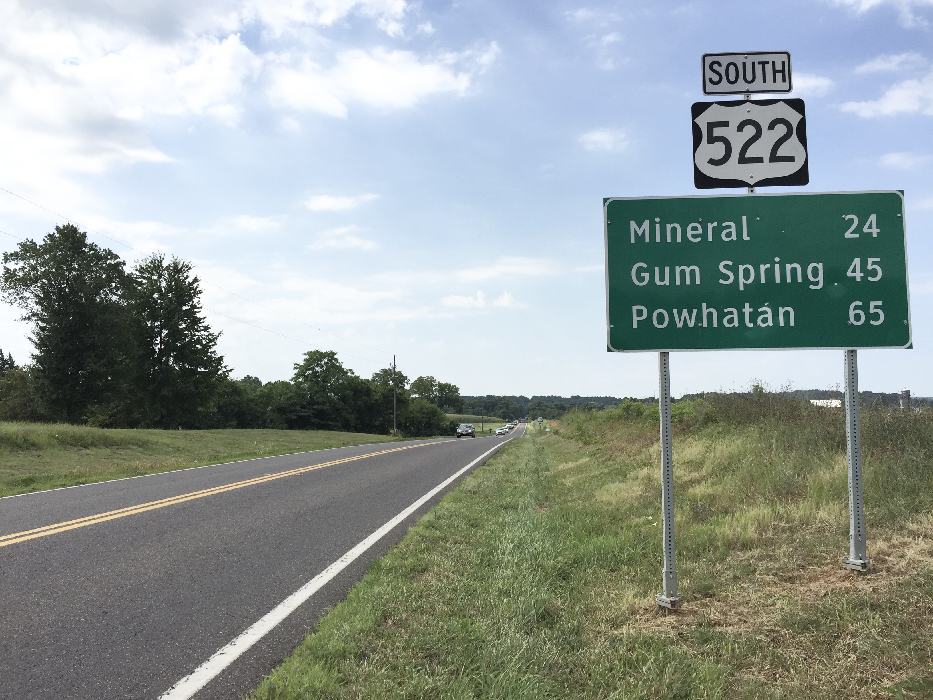 View south along U.S. Route 522 (Zachary Taylor Highway) between True Blue Road and Church Hill Road in northern Orange County, Virginia